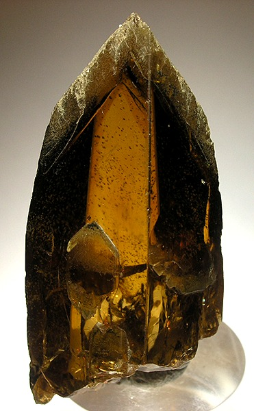 Baryte Locality: South Dakota, USA (Locality at ) Combined with amazing total gemminess throughout (except at the tip of the termination), a striking, DEEP amber color makes this a stunning single crystal. It has an all-too-common "fuzzy" gray termination that a lot of large Elk Creek barites get, but then its value is not so much in the nature of termination as in its overall appearance because of the color and amazing gemminess throughout. SUPERB SPECIMEN for what it is, and of remarkable quality! 4.7 x 2.4 x 1.4 cm